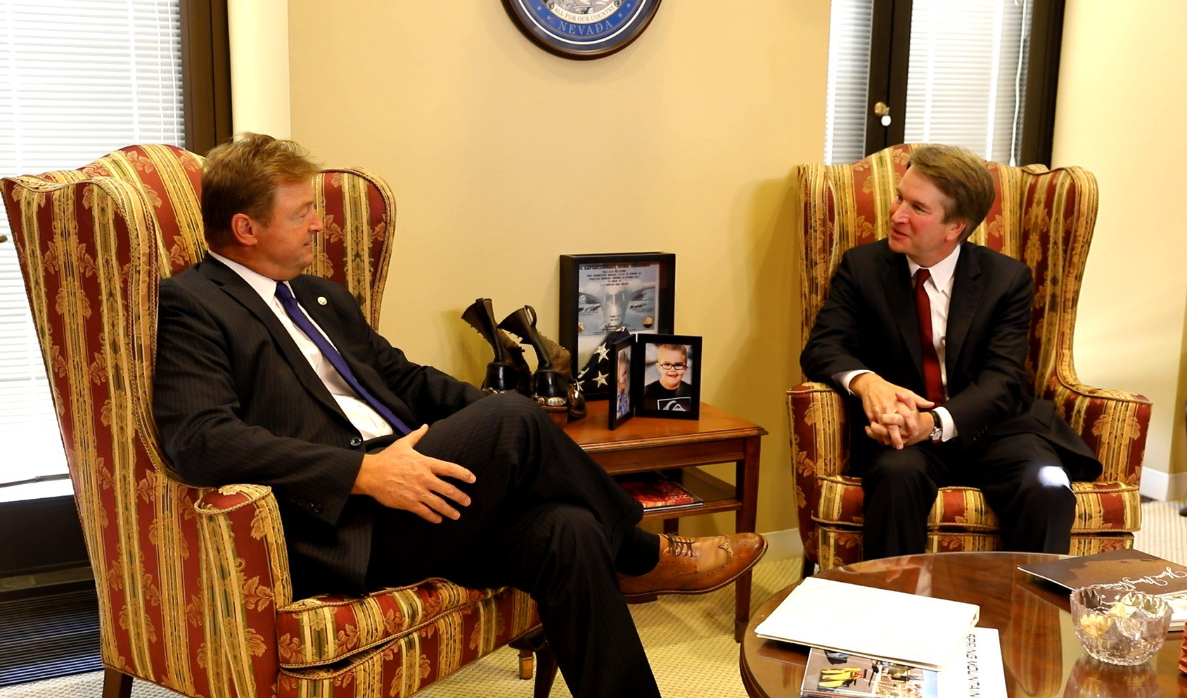 Today, I had the opportunity to sit down with Judge Brett Kavanaugh to ask him questions about his record, learn more about his judicial philosophy, and discuss his approach to serving on our nation’s highest court.